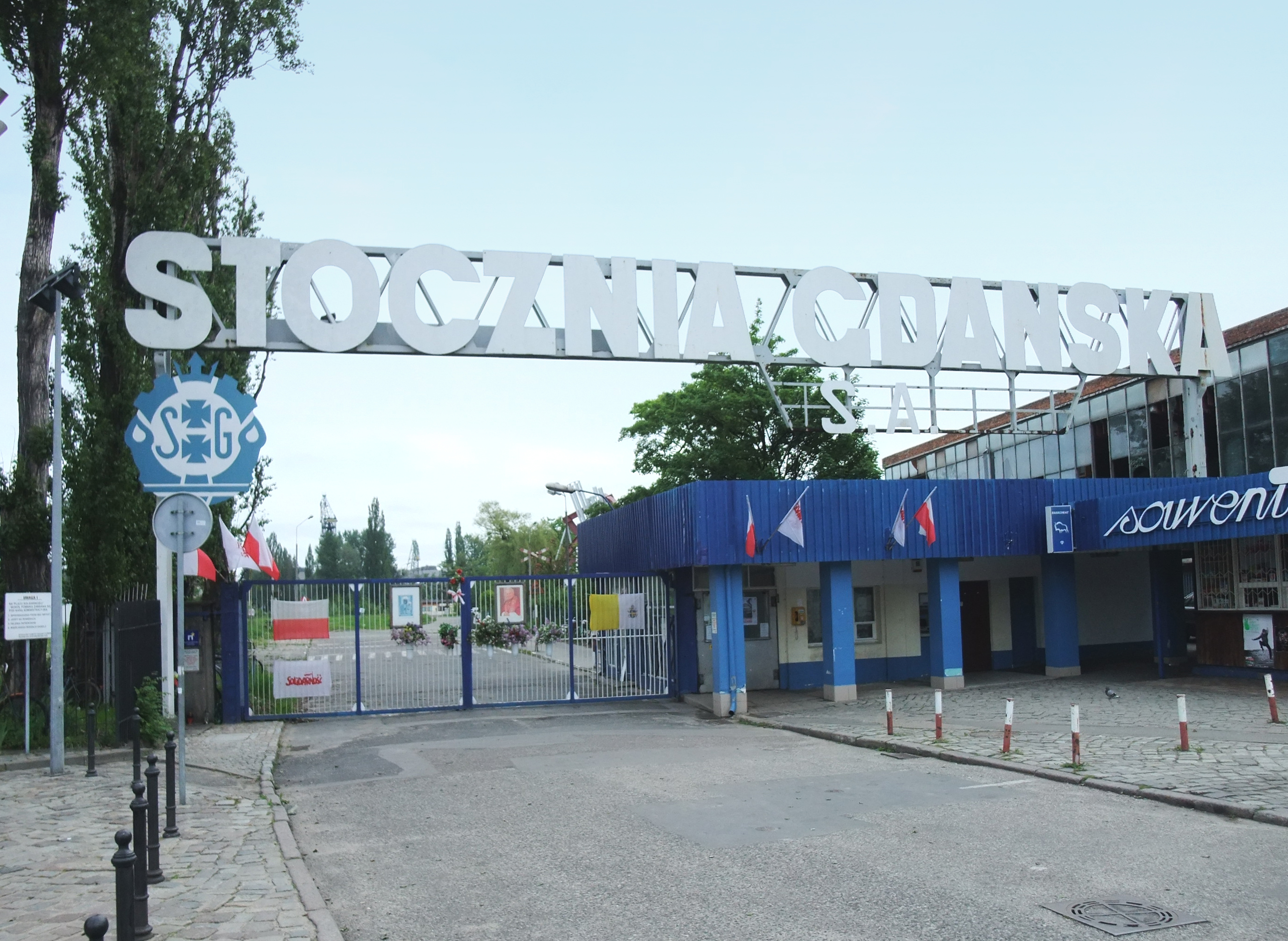 Gdańsk Shipyard, Poland (formerly "Stocznia Gdańska im Lenina")